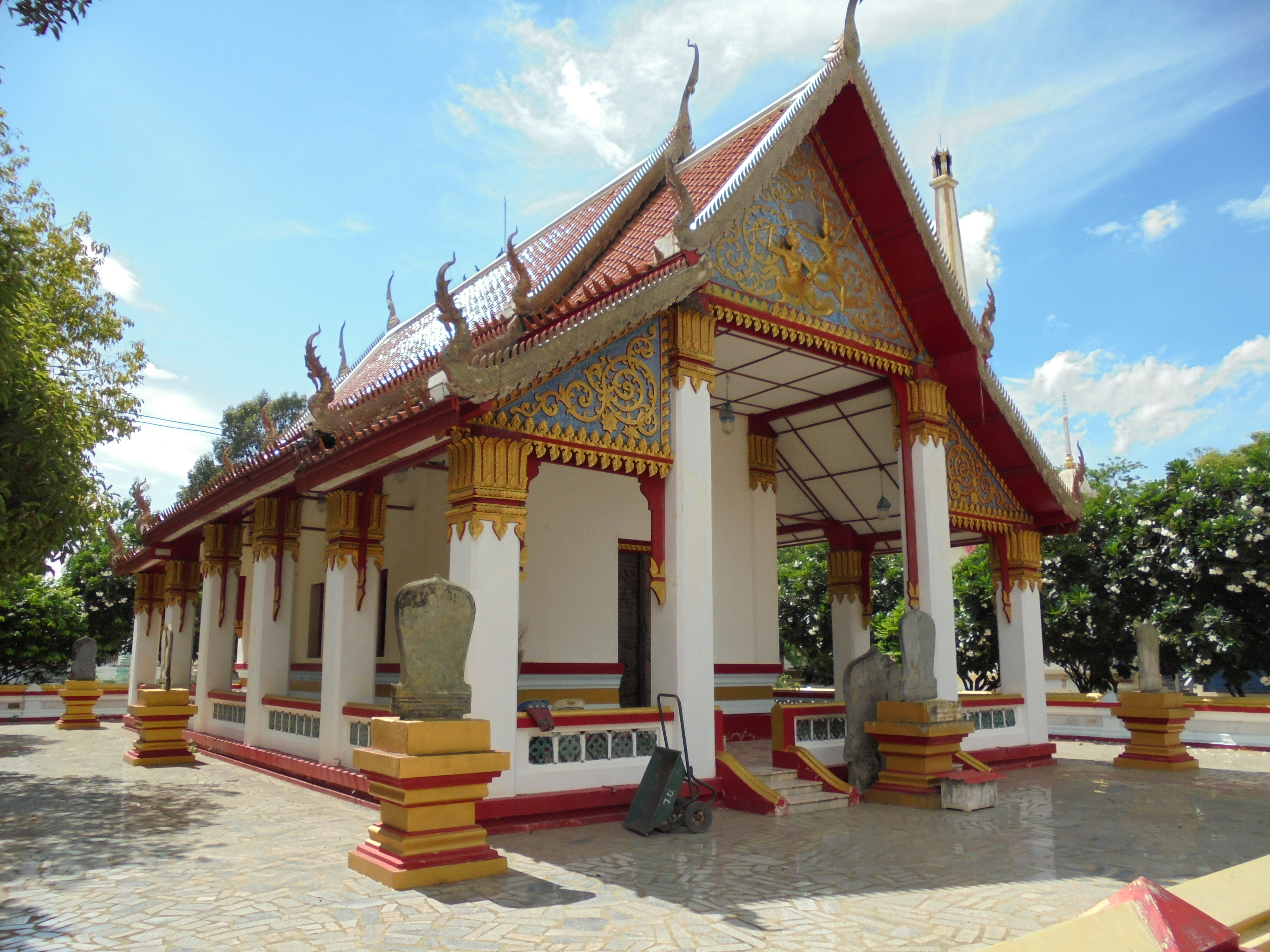 Ubosot of Wat Yang in Ban Khlong subdistrict, Mueang Phitsanulok district, Phitsanulok province.